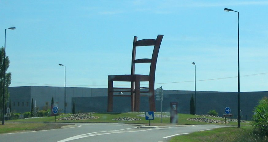 "Pantagruel's Chair", Hagetmau (The Landes, France)